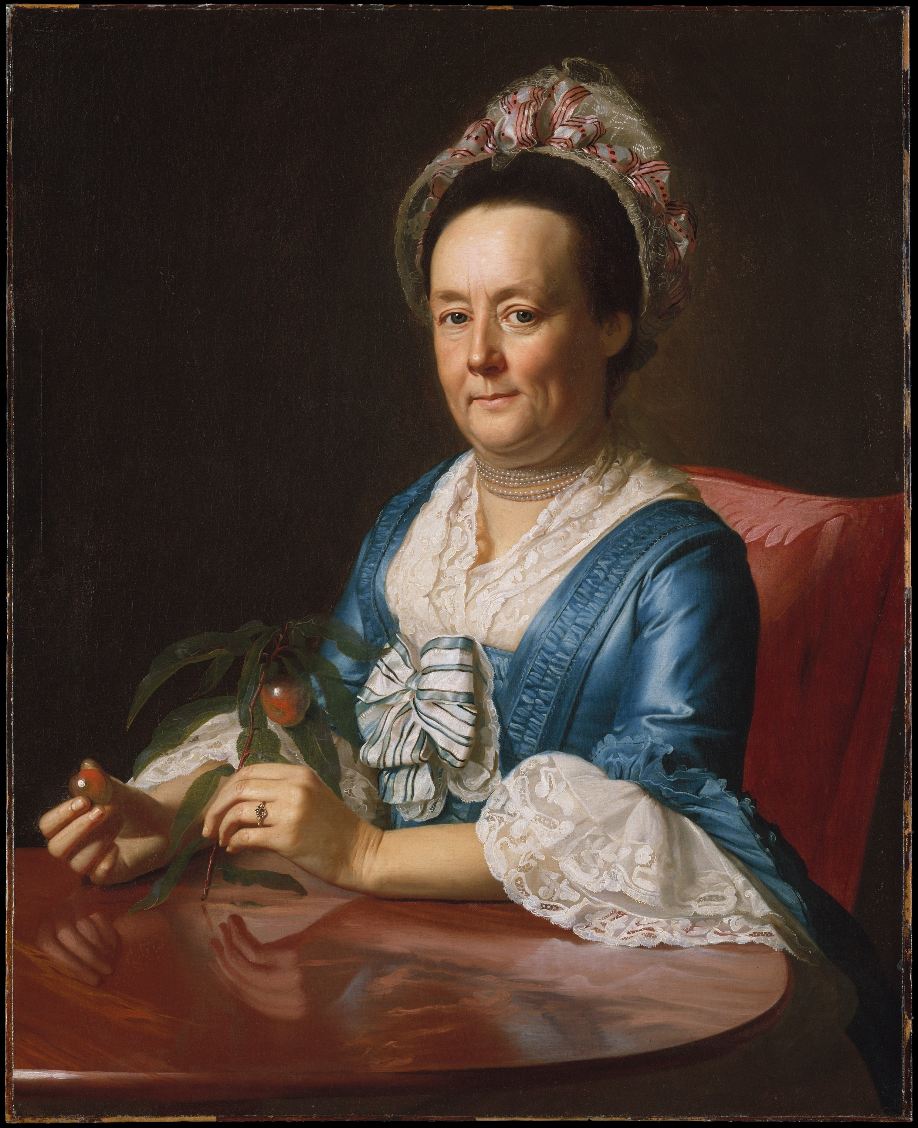 Portrait of Hannah Fayerweather Winthrop, the wife of Harvard professor and astronomer John Winthrop.